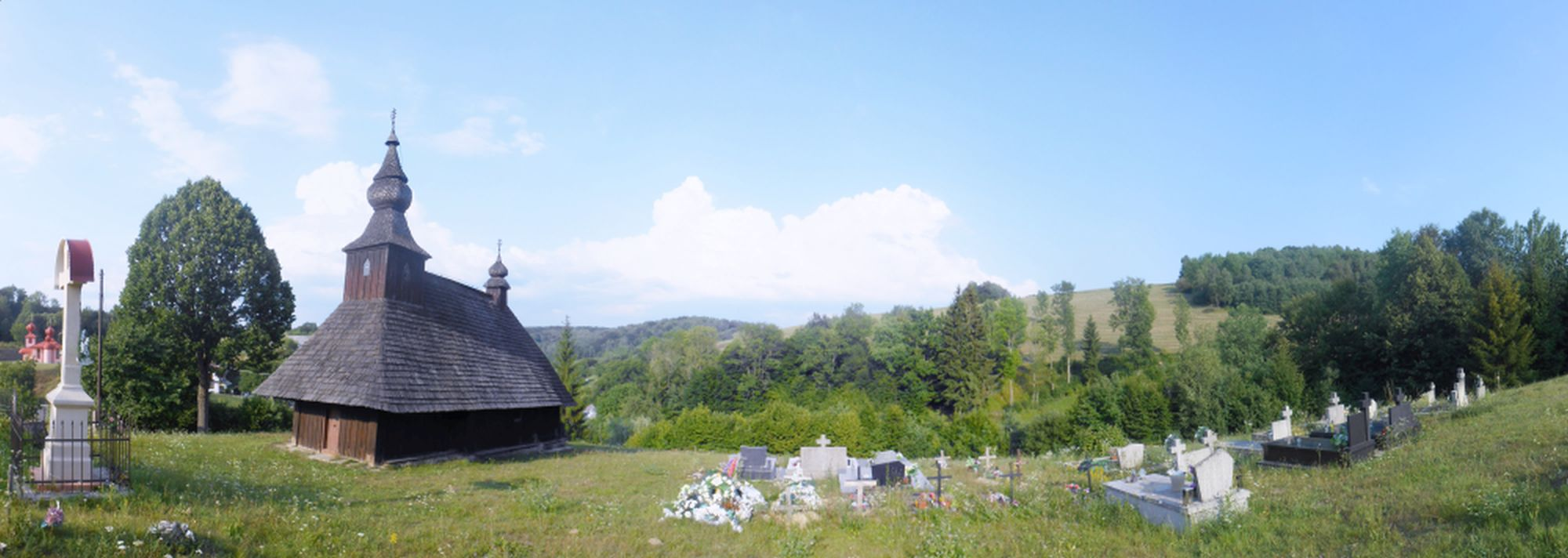 Wooden church of Saint Basil the Great with cementary in Hrabova Roztoka